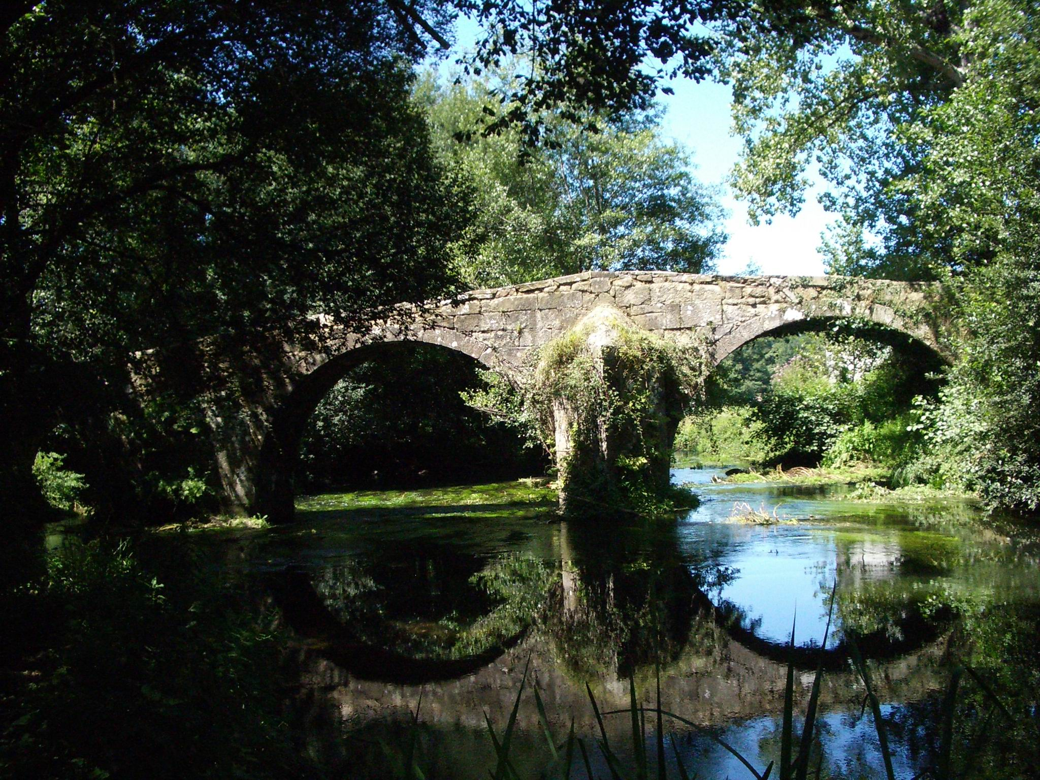 Bridge with Roman way, situated on the river Rosende, main tributary of the river Anllóns and natural limit between town halls of Carballo and Coristanco (La Coruña, Galicia, Spain). Step of the former high road. His length is 40 metres, gauge of 2,60 metres, with 4 asymmetrical arches, the biggest ones are in the shore of Carballo.